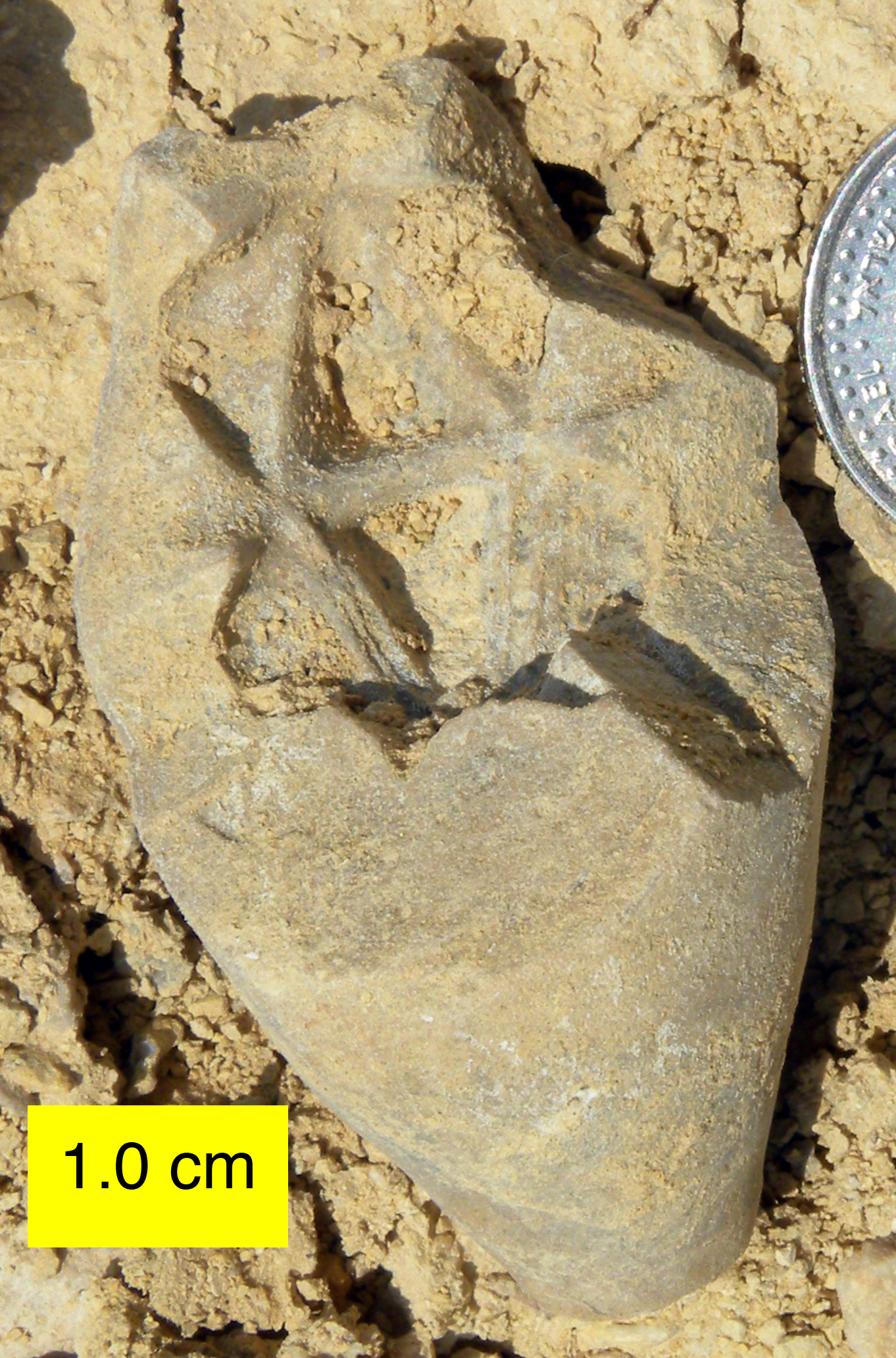 Apiocrinites calyx (Matmor Formation, Jurassic, southern Israel).